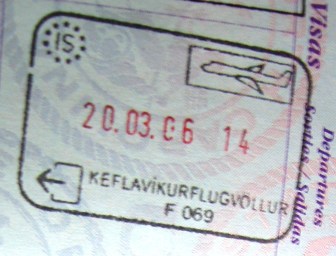 Passport exit stamp from Keflavik Airport, Iceland